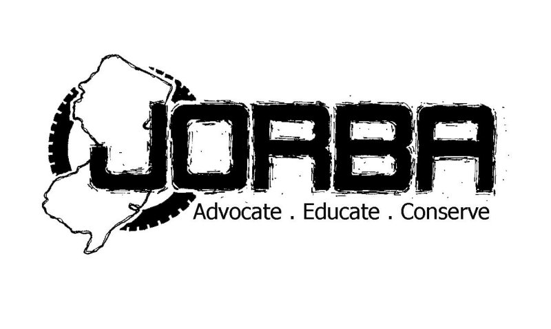 official JORBA logo